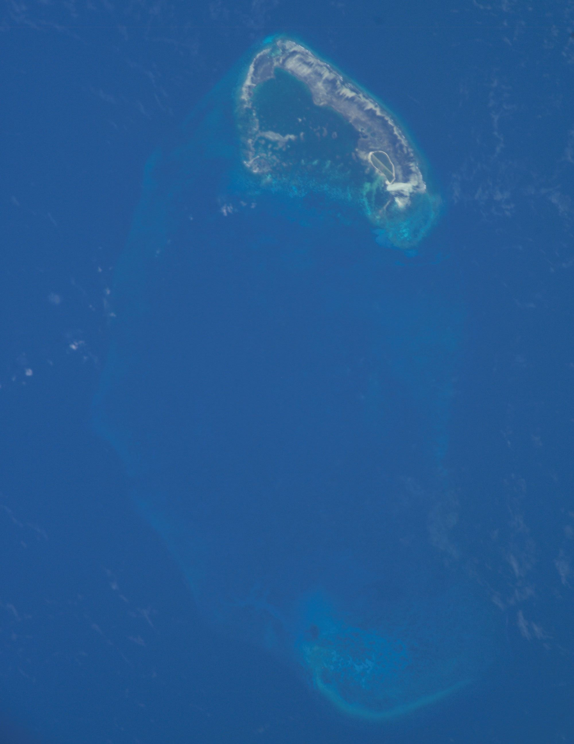 NASA astronaut image of Platte Island (Seychelles) in the Indian Ocean